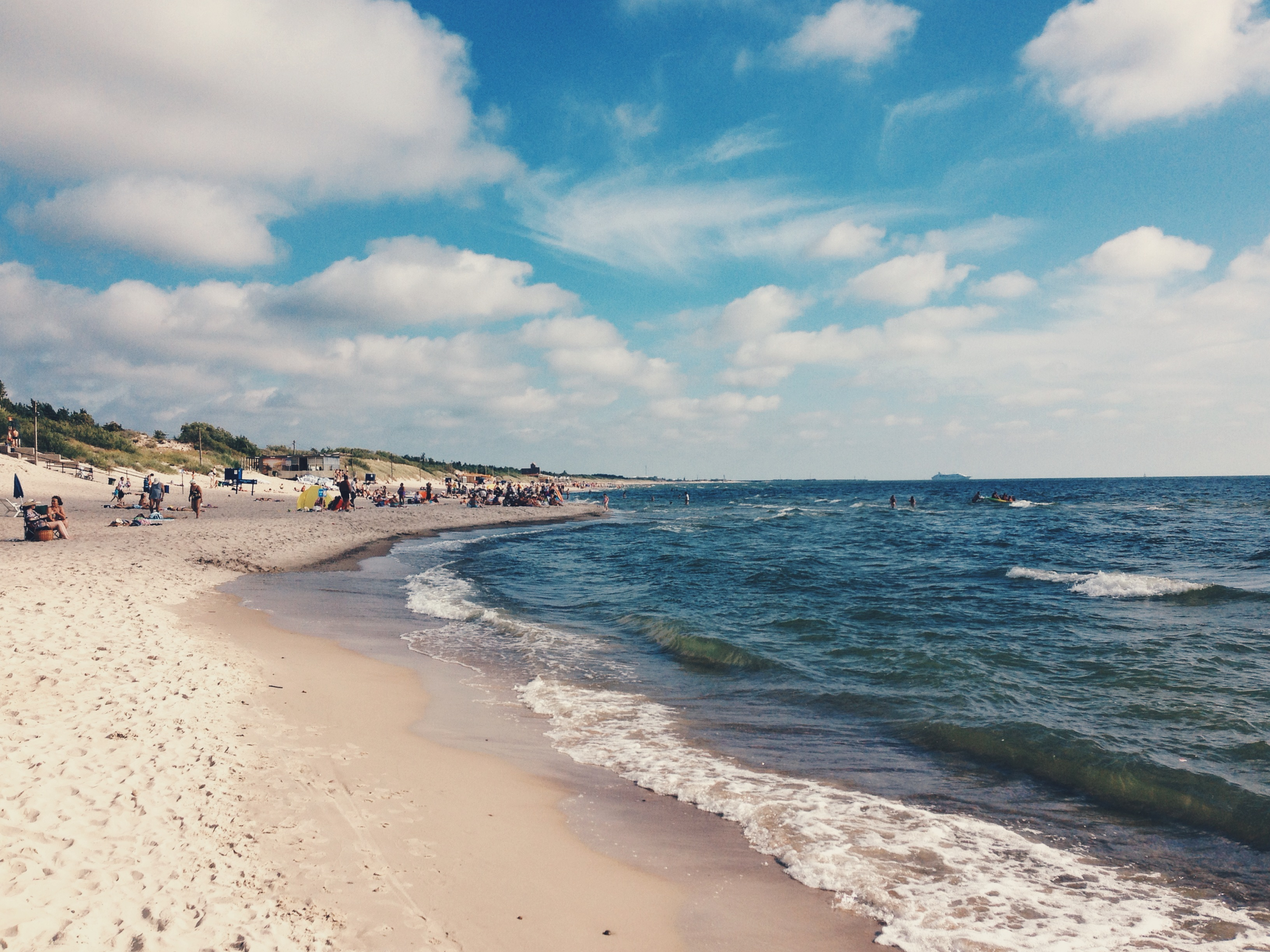 Beach in Giruliai Neighbourhood, Klaipėda